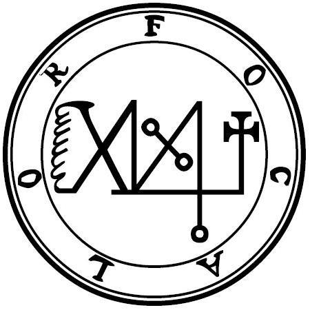 Focalor seal, THE BOOK OF THE GOETIA OF SOLOMON THE KING (1904)